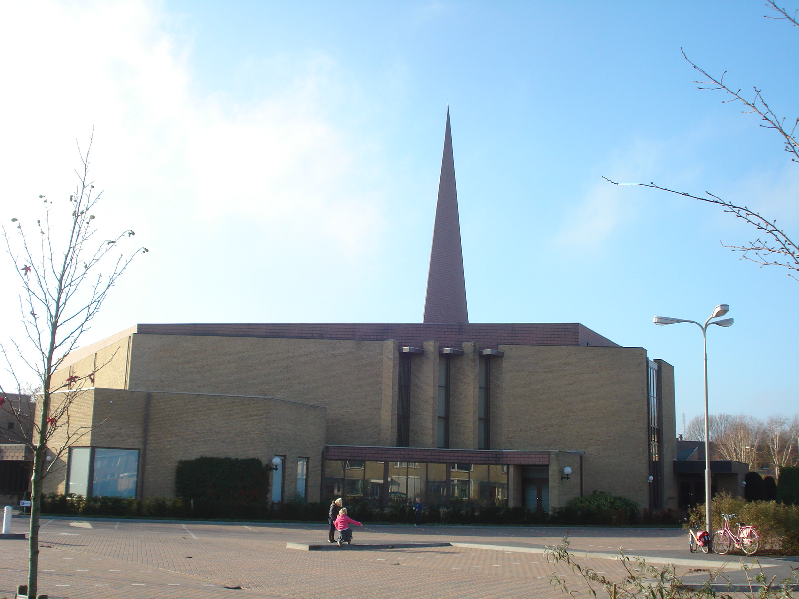 Sionkerk Goes Netherlands